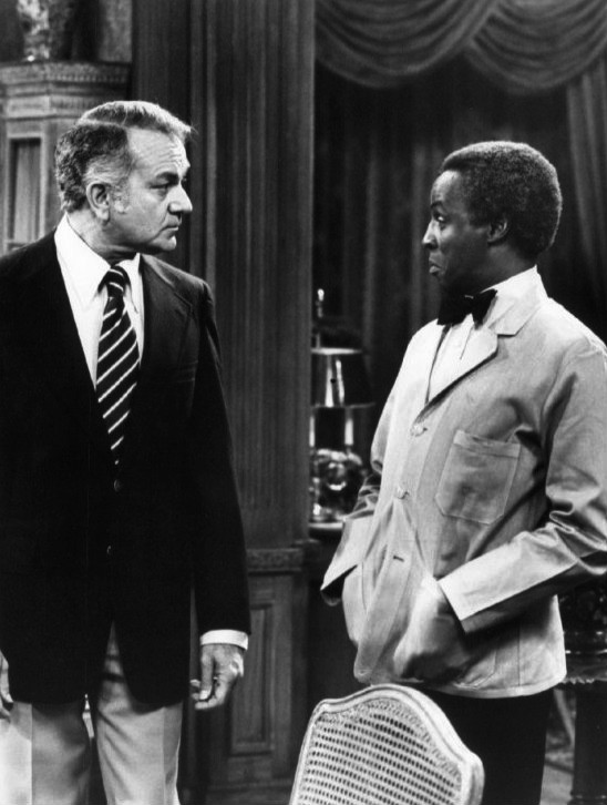 Publicity photo of robert Mandan (Chester Tate) and Robert Guillaume (Benson) from the television program SOAP.